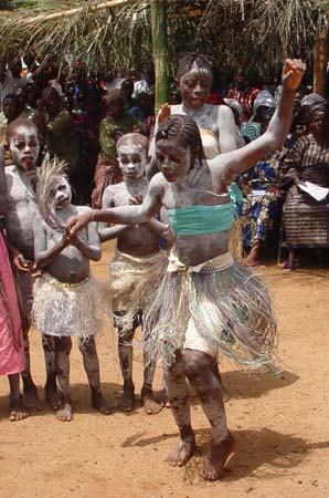 students celebrate the opening of a newly rebuilt school with traditional dancing in Koindu, Kailahun District, Sierra Leone